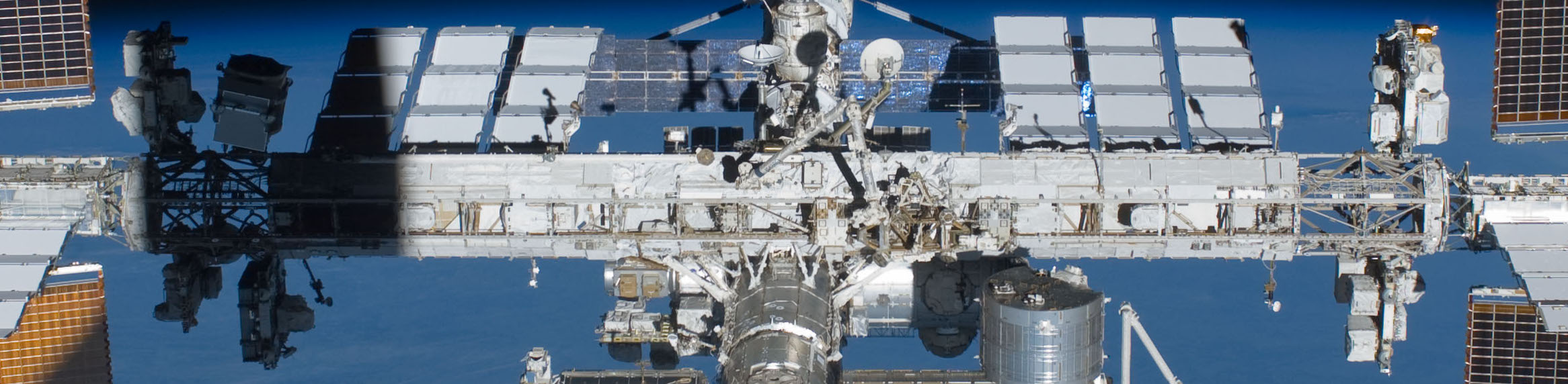 S134-E-010590 (29 May 2011) --- Backdropped by Earth's horizon and the blackness of space, the International Space Station is featured in this image photographed by an STS-134 crew member on the space shuttle Endeavour after the station and shuttle began their post-undocking relative separation. Undocking of the two spacecraft occurred at 11:55 p.m. (EDT) on May 29, 2011. Endeavour spent 11 days, 17 hours and 41 minutes attached to the orbiting laboratory. Cropped image.